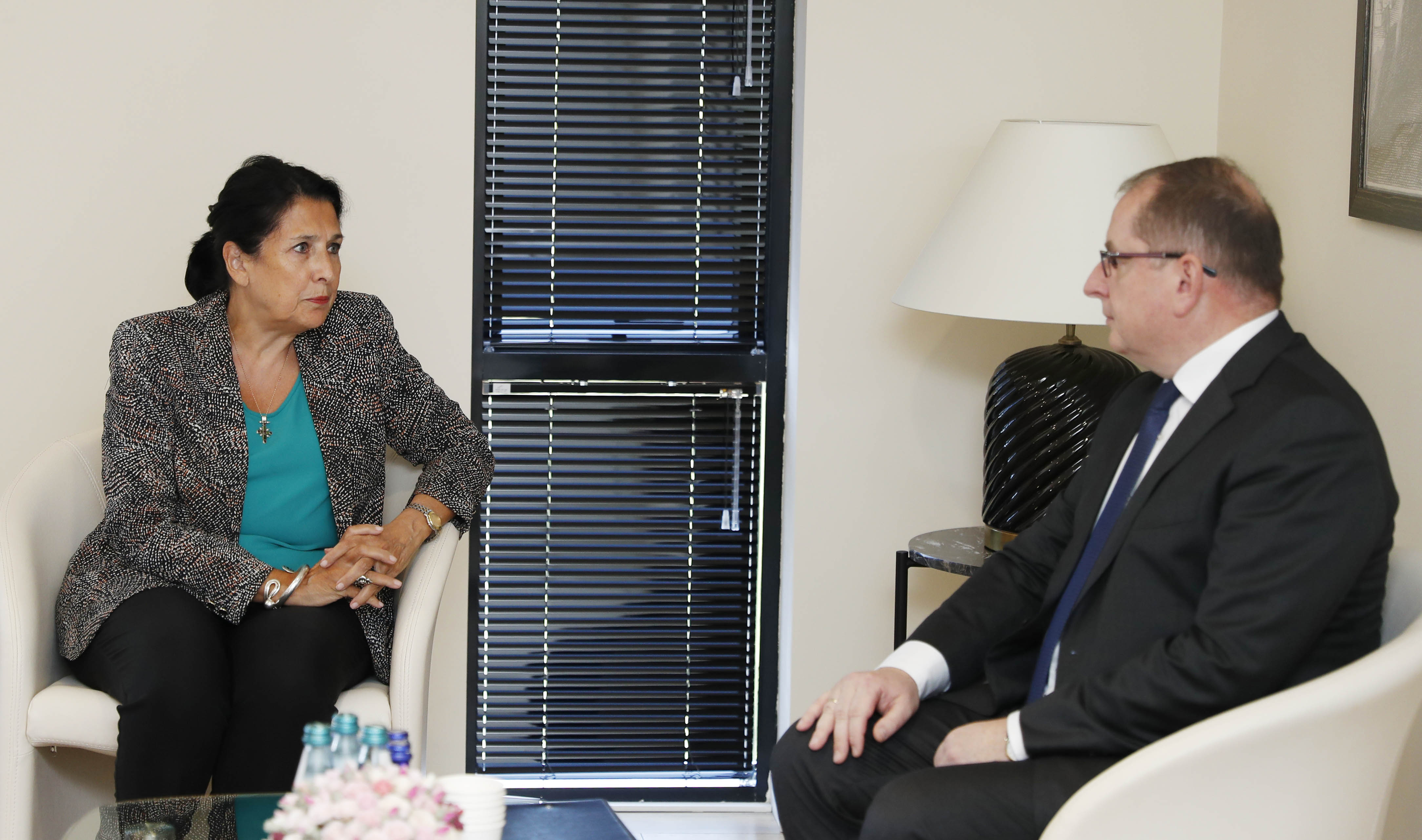 Georgian President Salome Zourabichvili and EUMM Georgia Head of Mission Marek Szczygieł